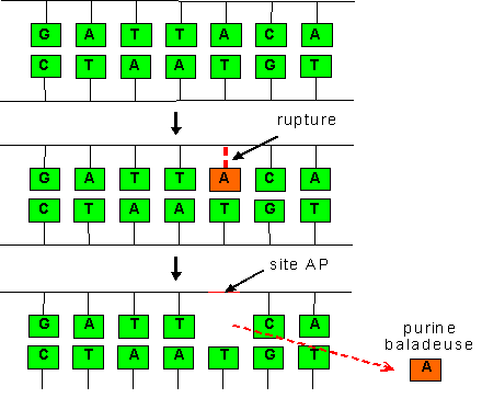 Explanatory diagram for DNA depurination